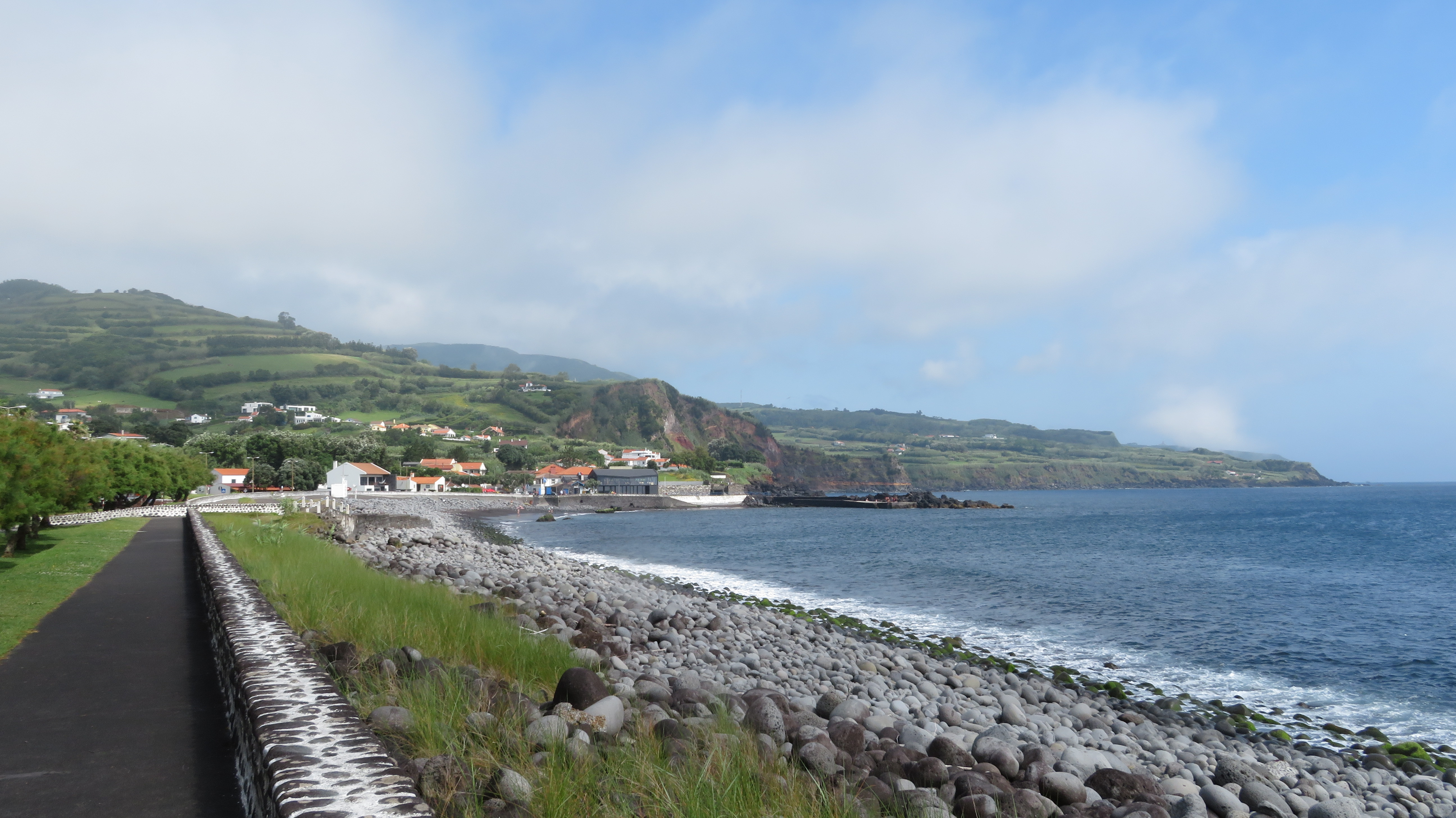 Beach "Praia do Amoxarife", island Faial, Azores, Portugal